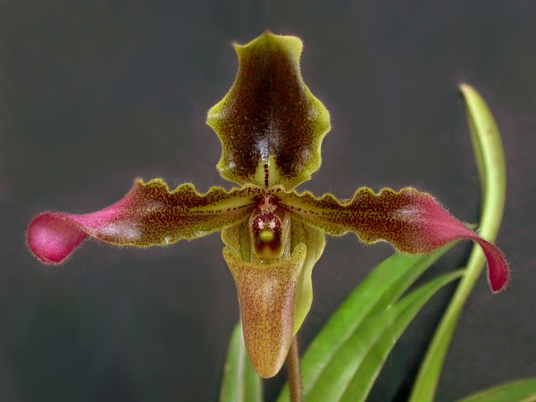 Paphiopedilum